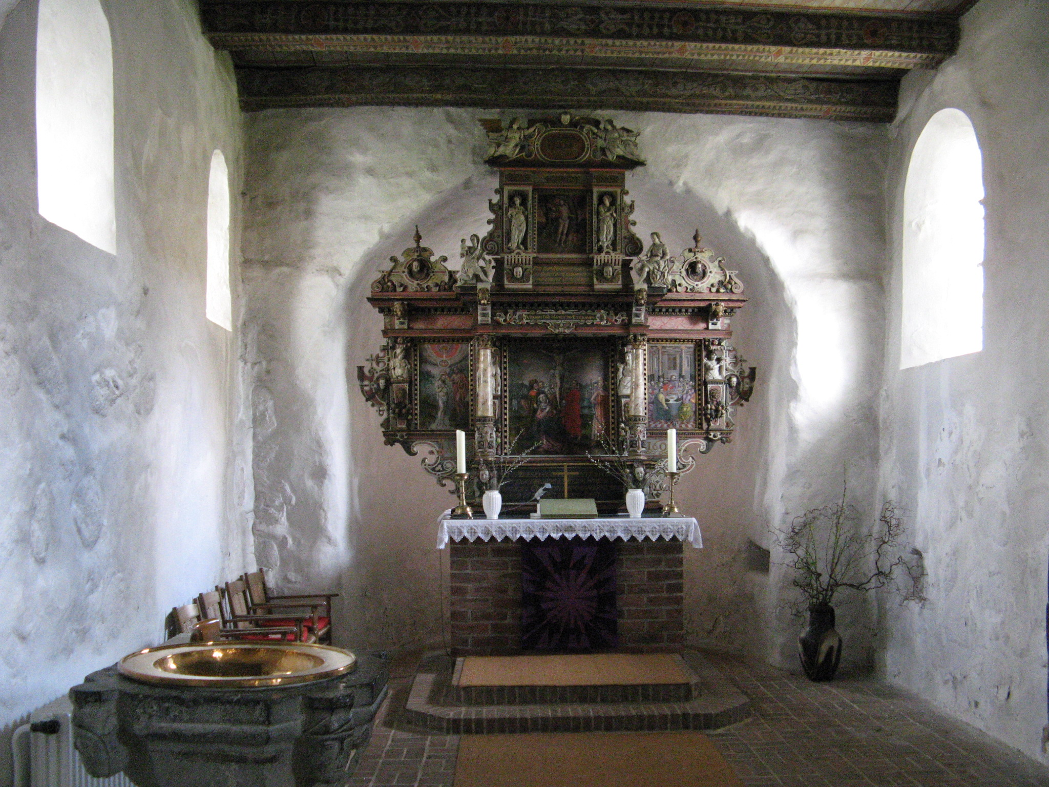 st. catharine church in Süderstapel Author: Dirk Ingo Franke